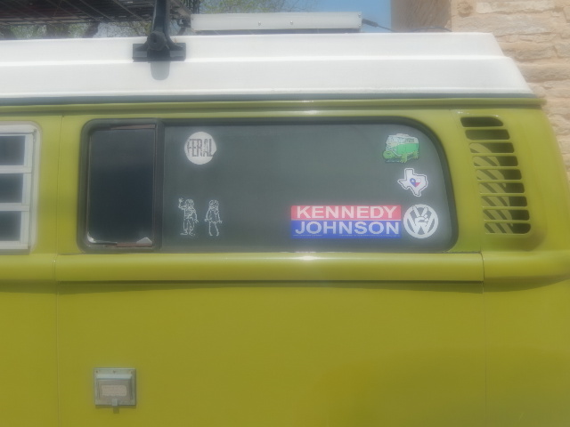 I took photo of Kennedy-Johnson bumper sticker on vehicle in Del Rio, TX.